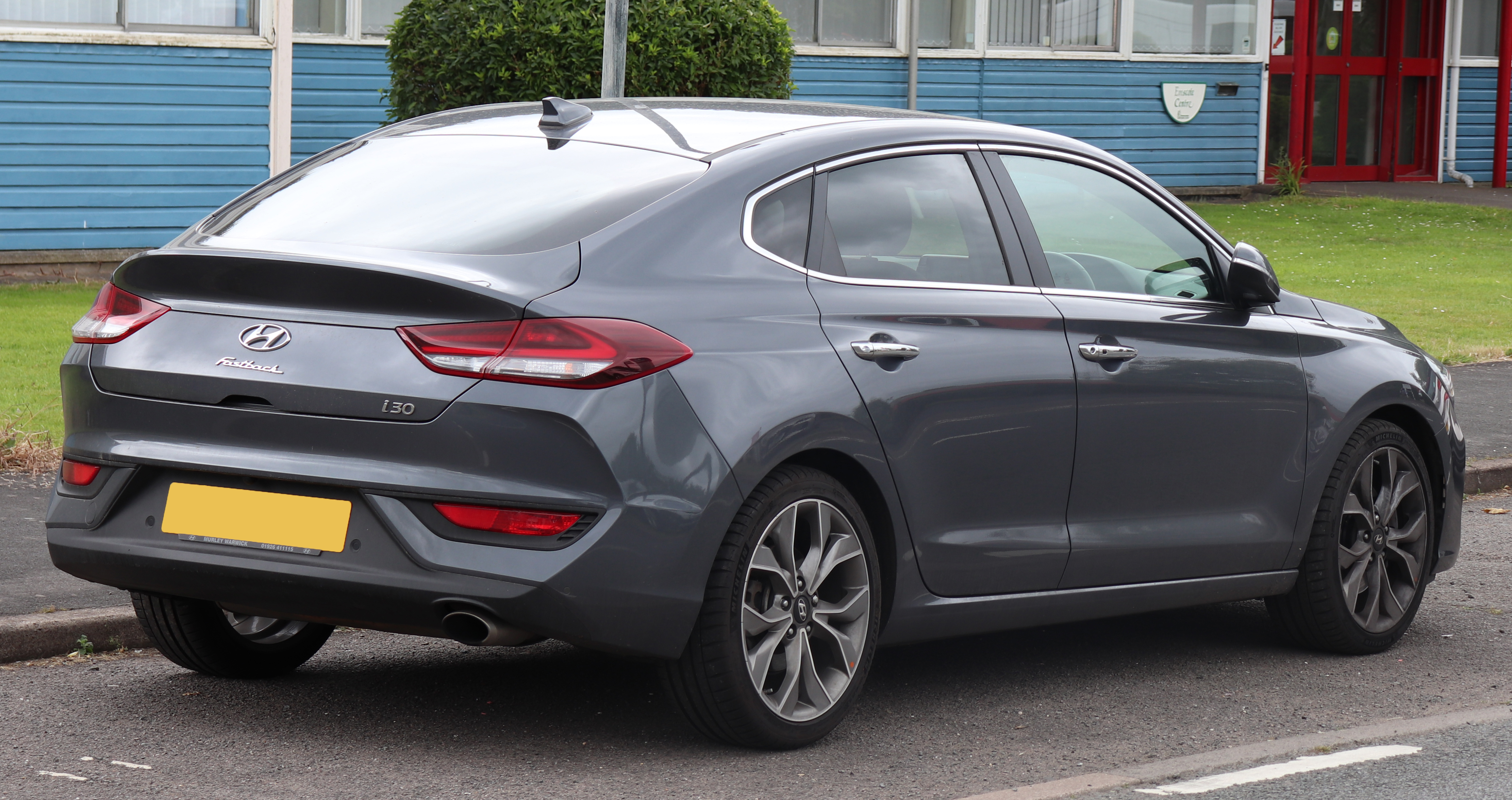 2018 Hyundai i30 Premium S-A Fastback 1.3 Rear Taken in Warwick